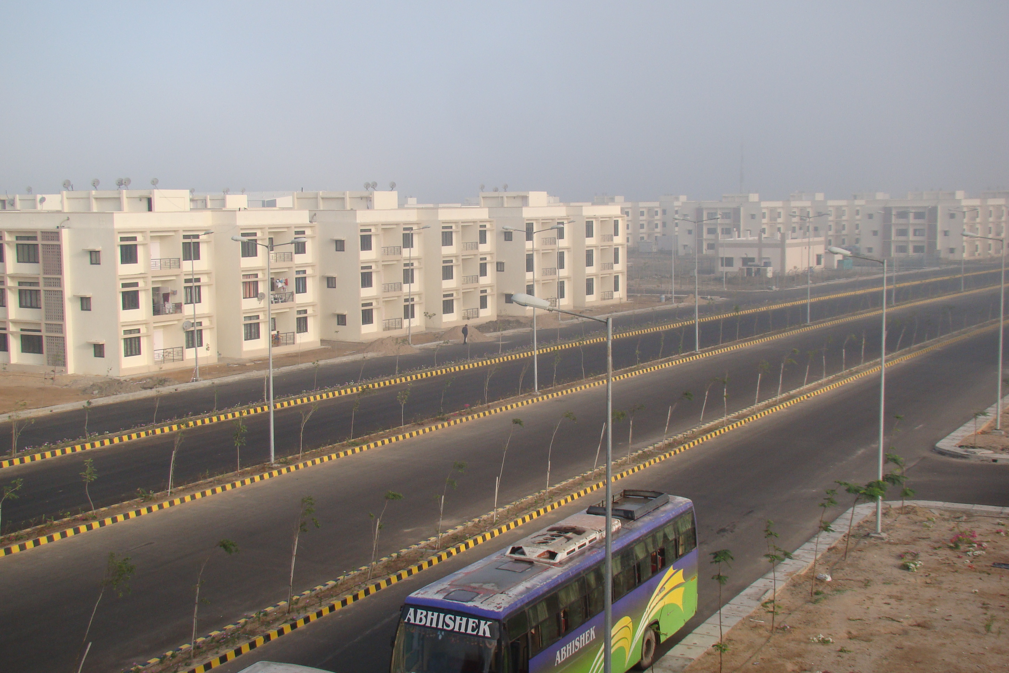 SAMUNDARA TOWNSHIP